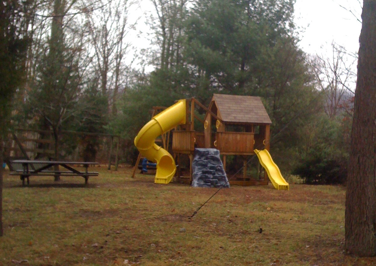 This is a picture of the Lakeview Heights, Kentucky park and playground.